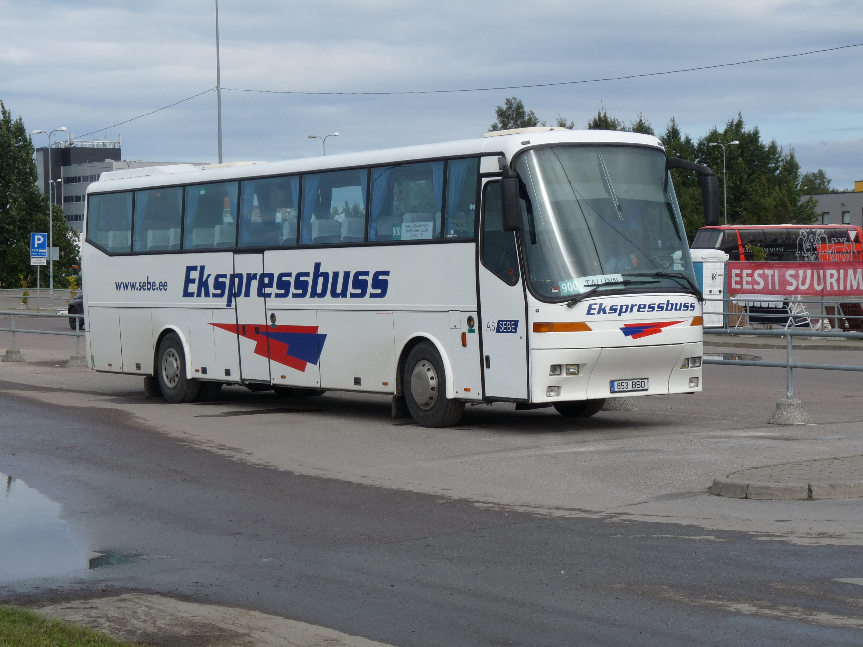 SEBE bus in Tallinn